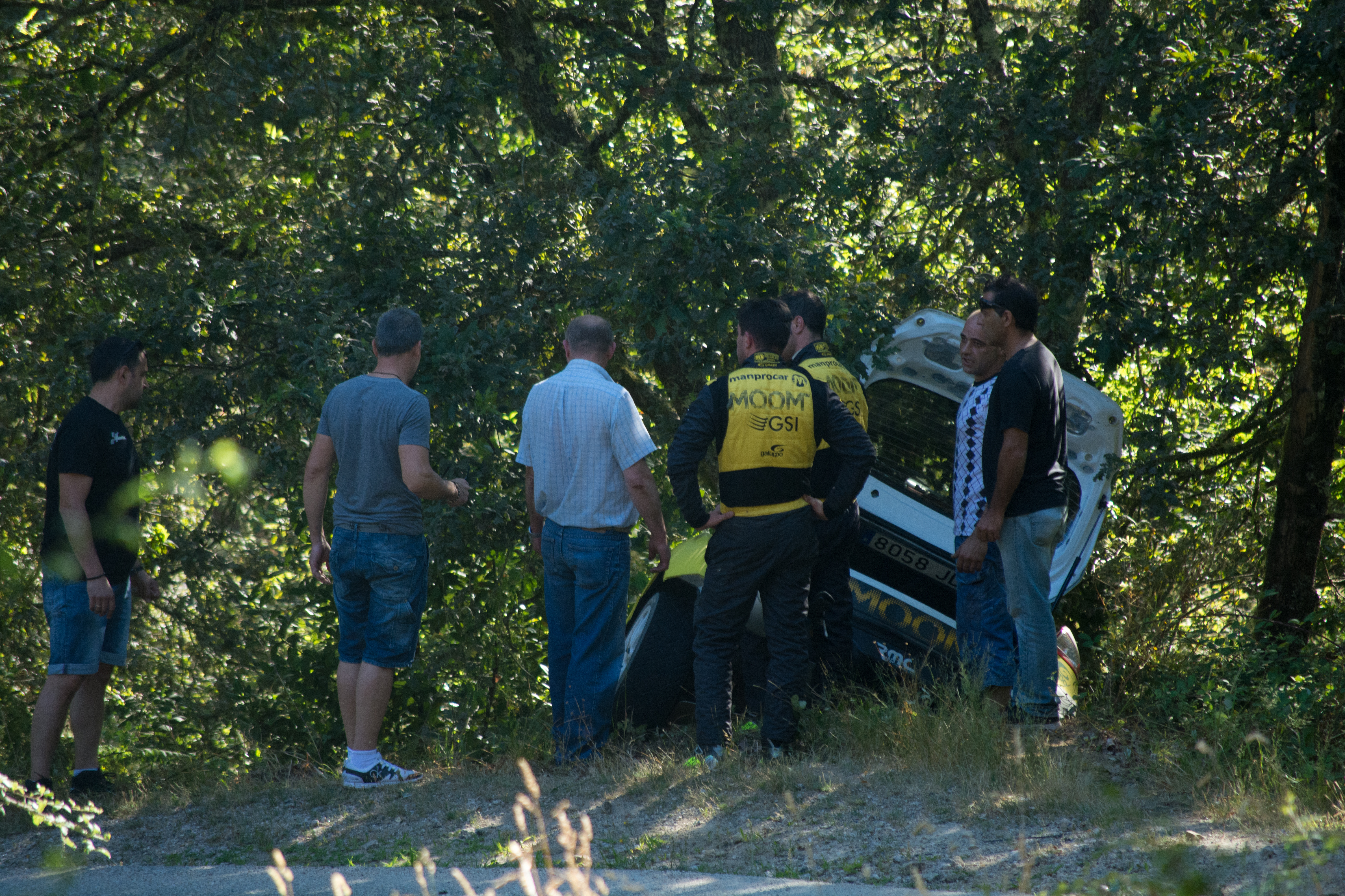 Rally Sur do Condado 2016